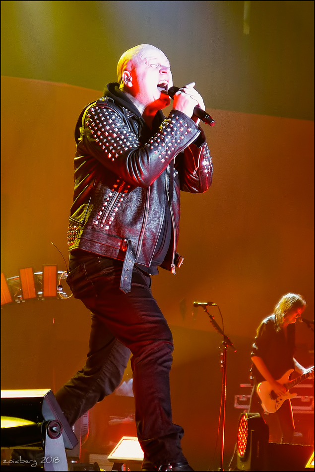 Michael Kiske performing live with Helloween at the Movistar Arena in Santiago, Chile in 2018. The concert was part of the Pumpkins United World Tour 2017/2018.